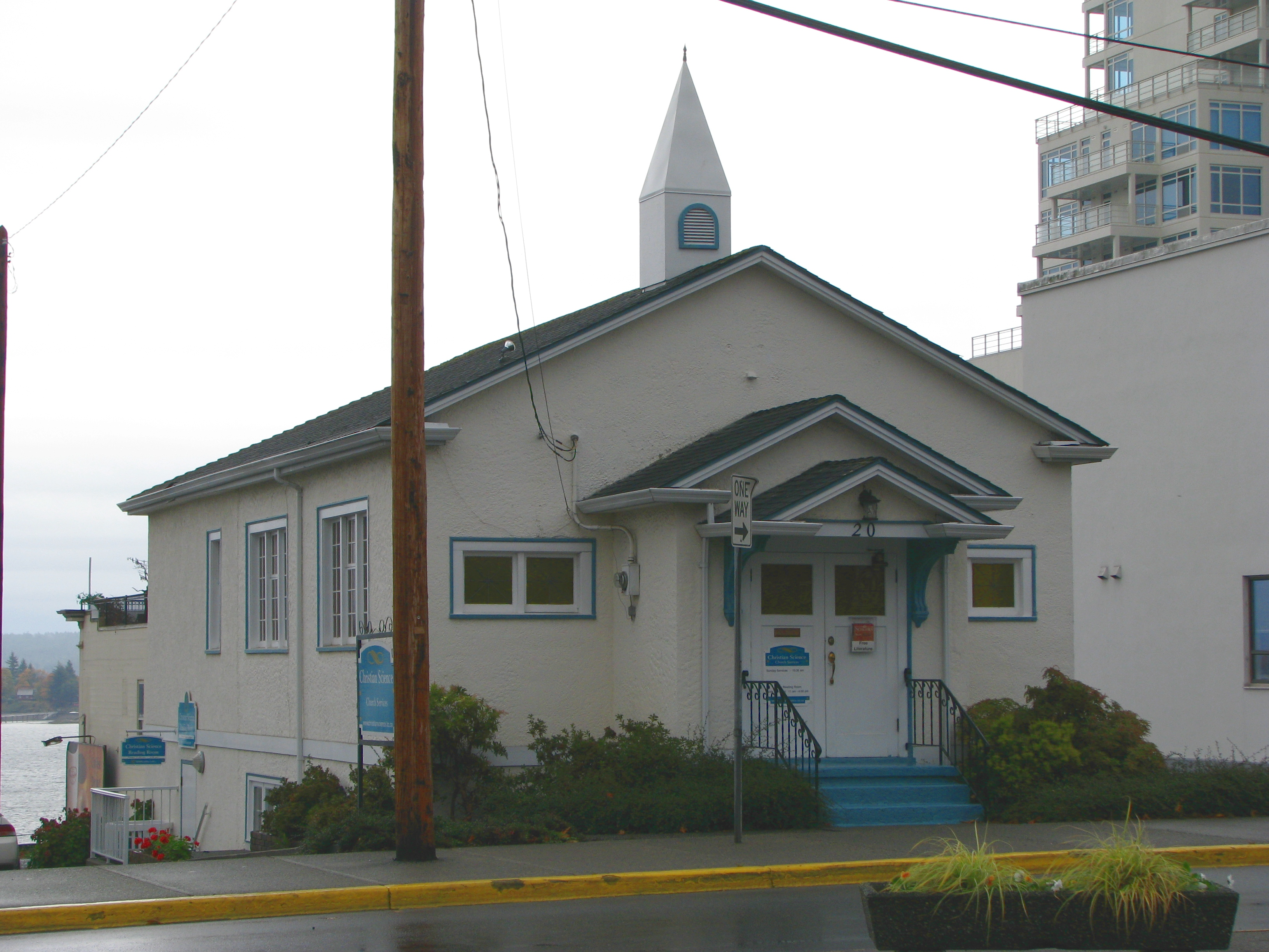 Christian Science Reading Room building, 20 Chapel Street, Nanaimo, BC